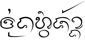 Lanna script – Thung Hua Chang is a district (amphoe) of Lamphun Province, northern Thailand.